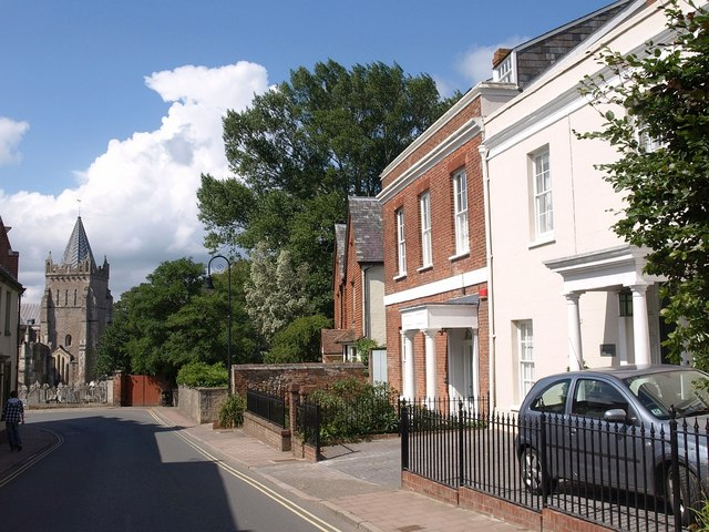 Photo looking down Paternoster Row, part of the town, featuring St Mary's church